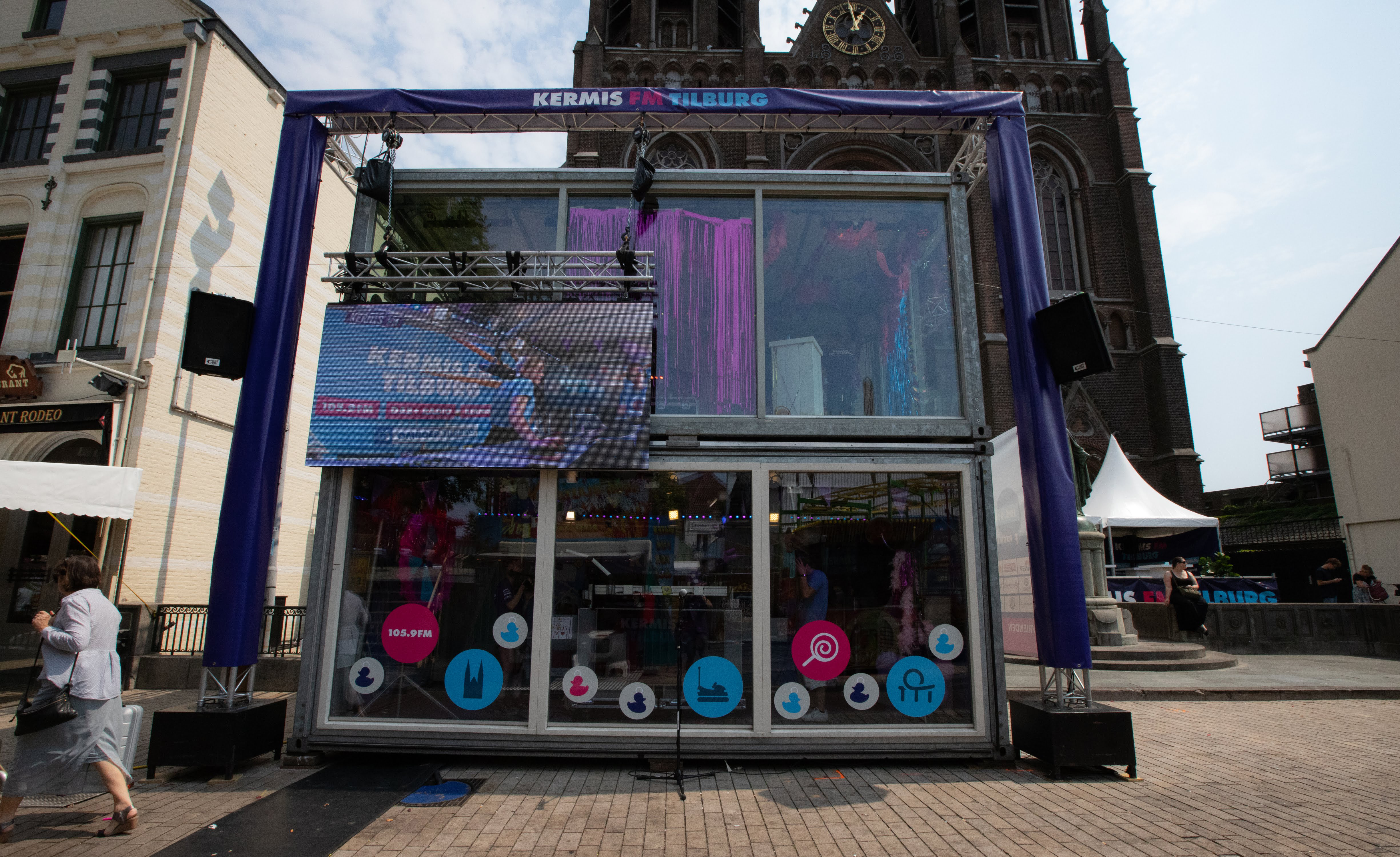 Studio van Kermis FM in 2018